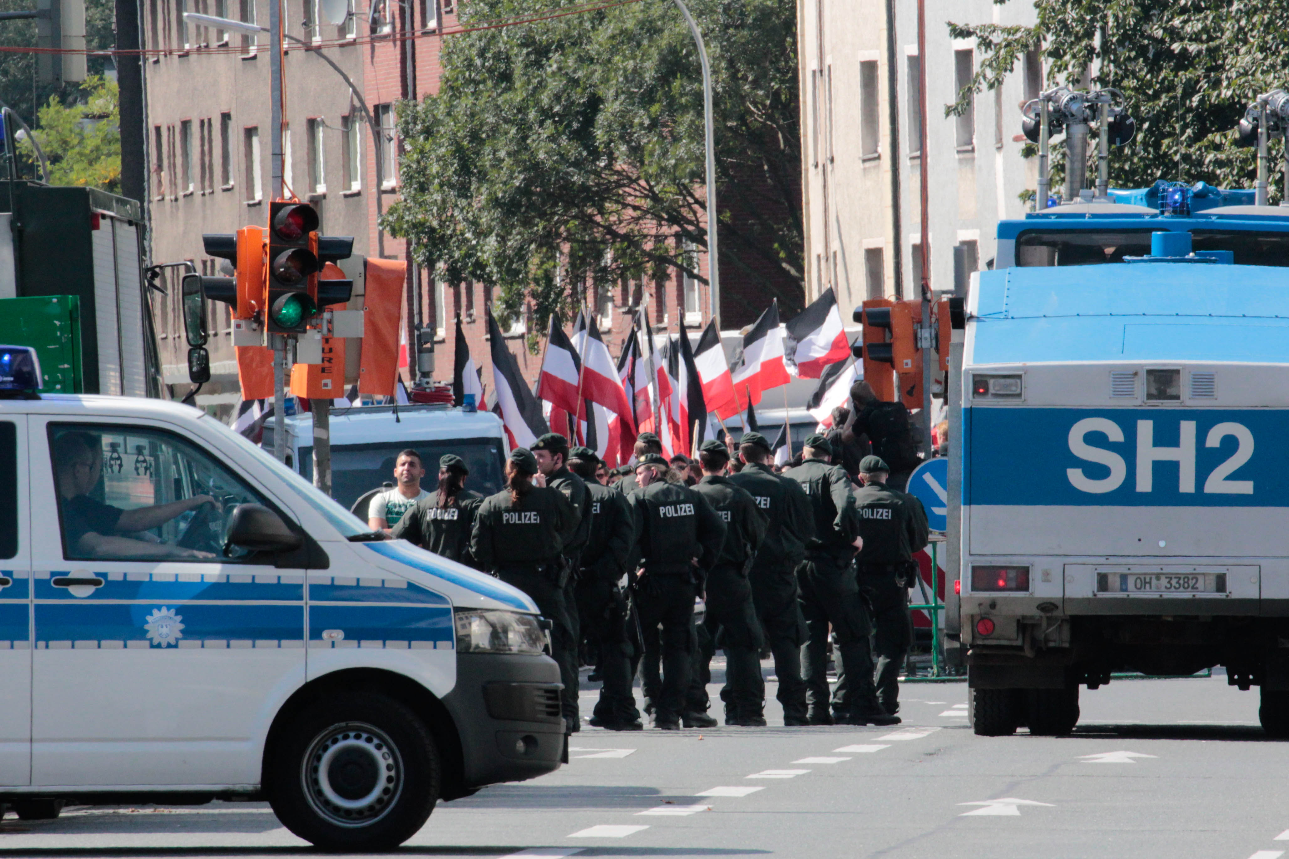 NWDO, Autonome Nationalisten, Nationaler Widerstand Dortmund, Neonazi protesters isolated by police in Dortmund, 23.09.2011